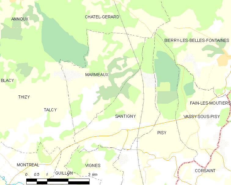 Map of French municipality Santigny